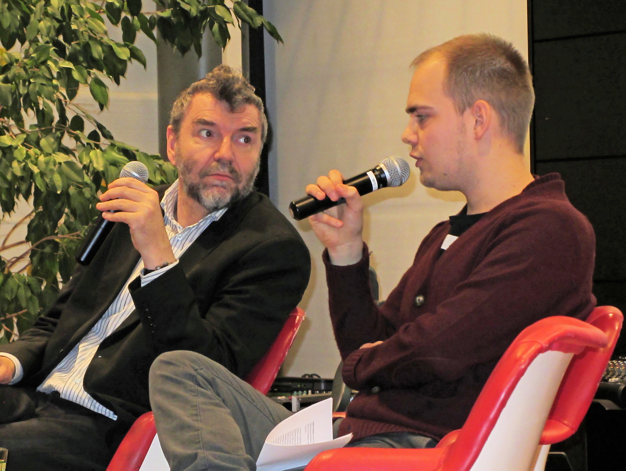 Musician and writer Kauko Röyhkä visited the Townlibrary of Kerava and told about his somewhat autobiographical book Miss Farkku-Suomi. He was interviewed by poet and critic Erkka Mykkänen. The film based on the book was shown afterwards.